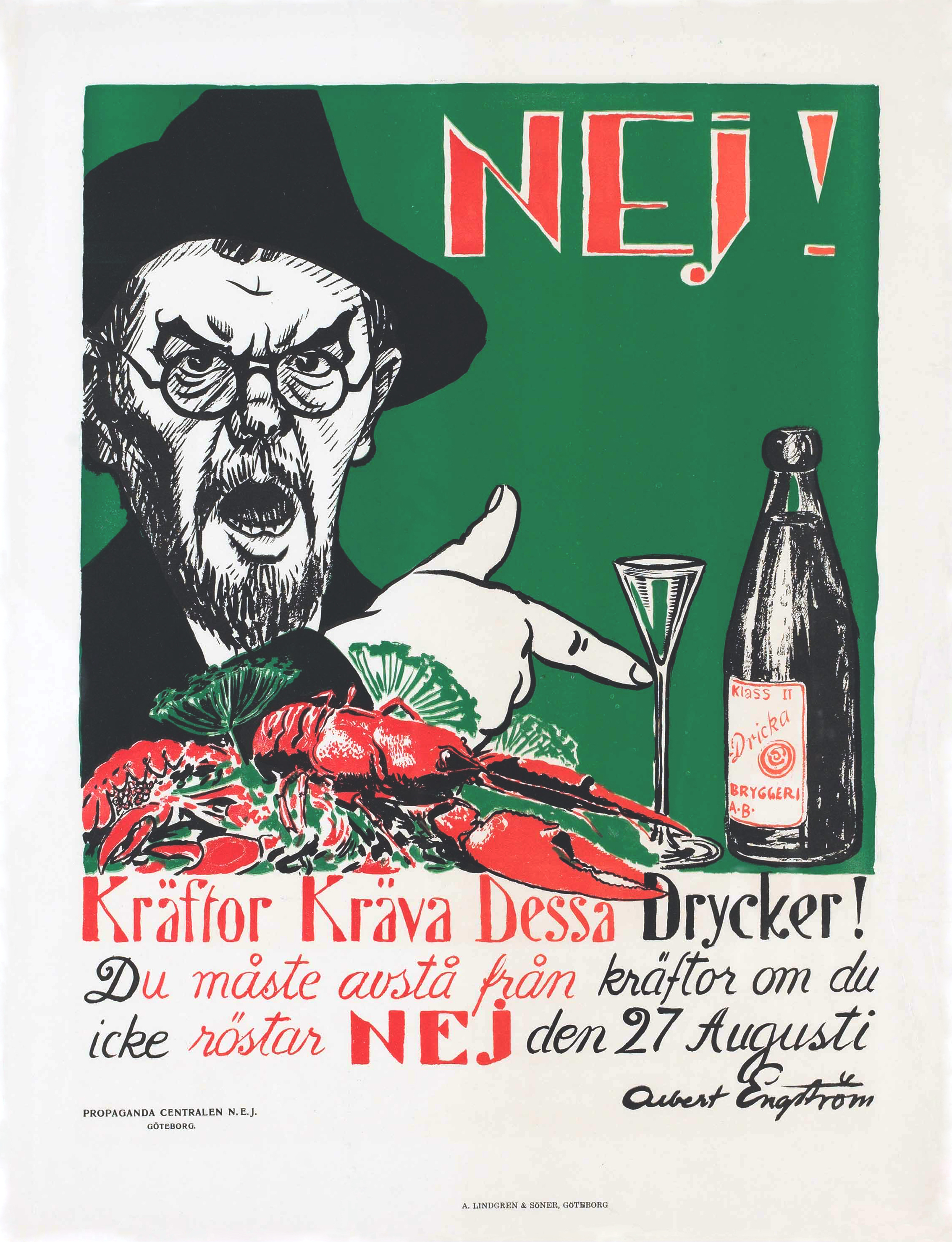 Poster used at the Swedish referendum on prohibition in 1922. The text in